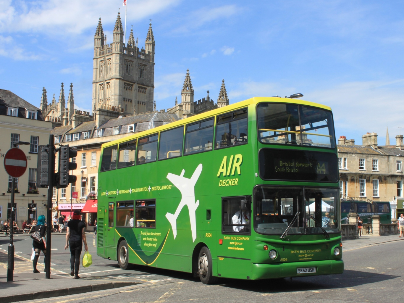 Bath Bus Company's Airbus service to Bristol Airport turns at North Parade at the start of its journey. The bus is their number A504, a Volvo-powered Alexander ALX400 registered SK52USH.